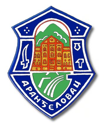 Former coat of arms of the municipality of Aranđelovac